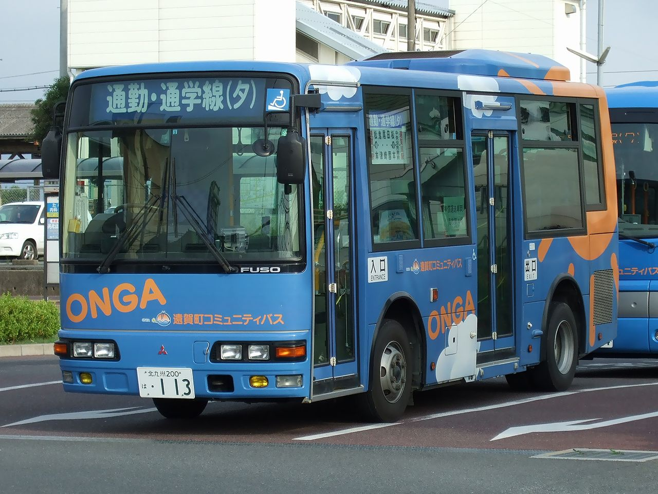 Onga Town community bus Company:Onga Town, Fukuoka, Japan Use:transit bus Car license:北九州200 は・113 Chassis manufacturer:Mitsubishi Fuso Truck and Bus Corporation Coachbuilder:Mitsubishi Fuso Bus Manufacturing Location:at Ongagawa Station, Onga Town, Fukuoka, Japan